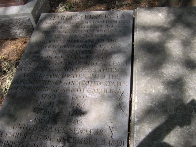 The grave of Charles Pinckney in St. Philip's Episcopal Church Cemetery in Charleston, South Carolina.